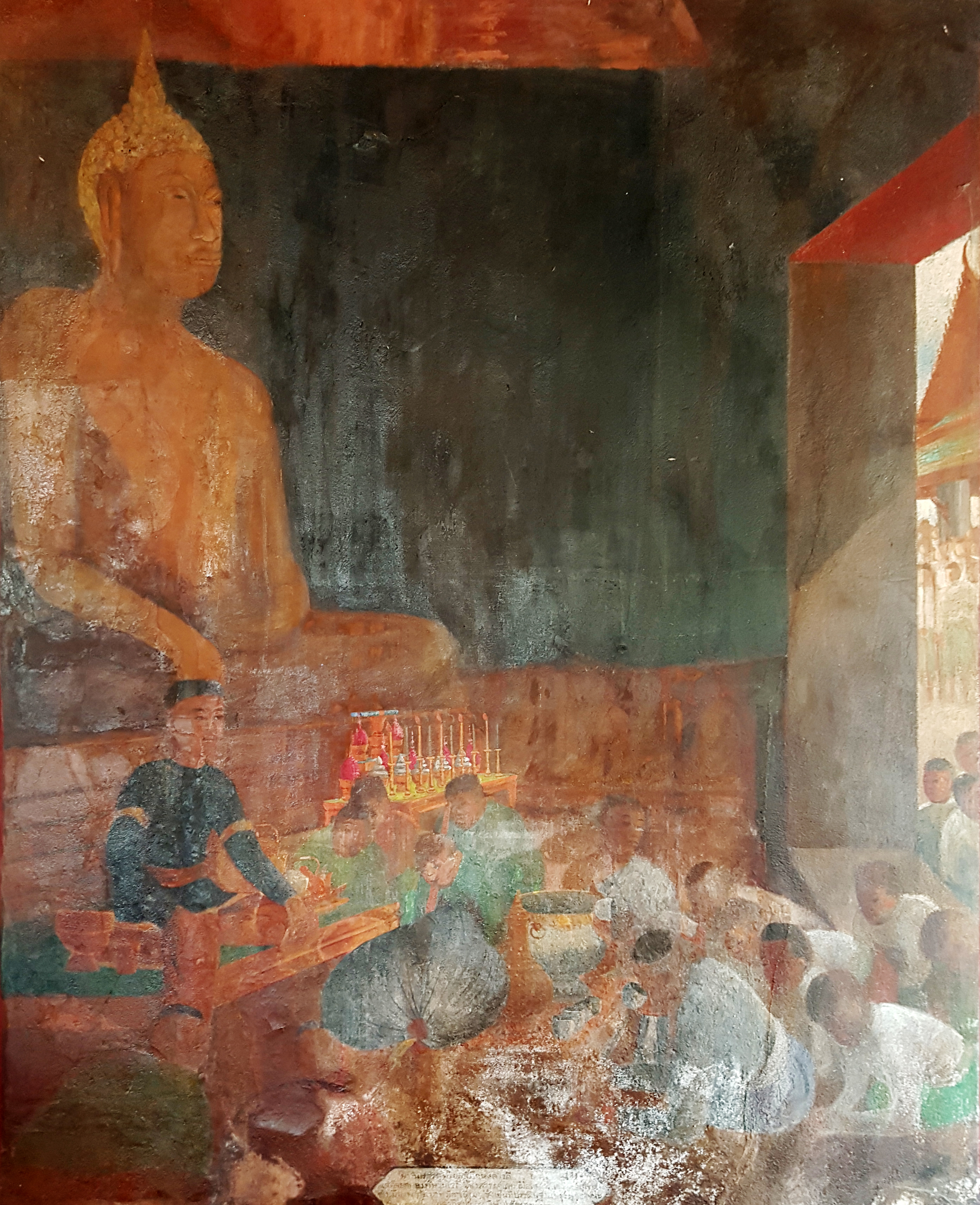 Painting: Naresuan the crown prince of Ayutthaya presided over a rite of drinking of the water of allegiance inside the hall of Wat Si Chum, Sukhothai, in 2127 Buddhist Era (falling between 1584/85 Common Era) Place: Mural painting inside the wihan of Wat Suwan Dararam, Phra Nakhon Si Ayutthaya Province, Thailand. Painter: Noble title: Phraya Anusat Chittrakon (พระยาอนุศาสนจิตรกร) Real name: Chan Chittrakon (จันทร จิตรกร) Year painted: 2474 Buddhist Era (falling between 1931/32 Common Era)